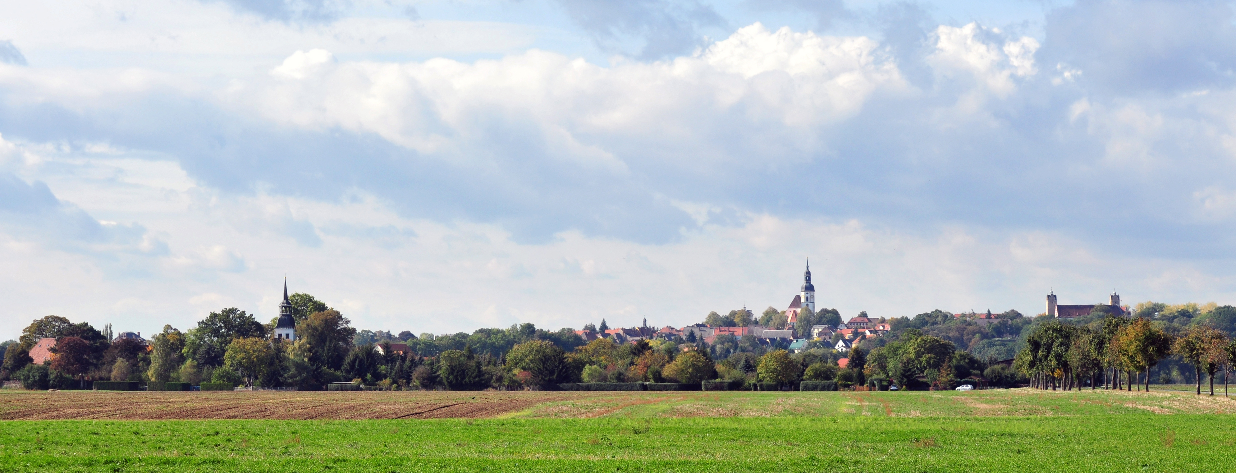 View over Lorenzkirch (Zeithain, Saxony, Germany) to Strehla (in the background).